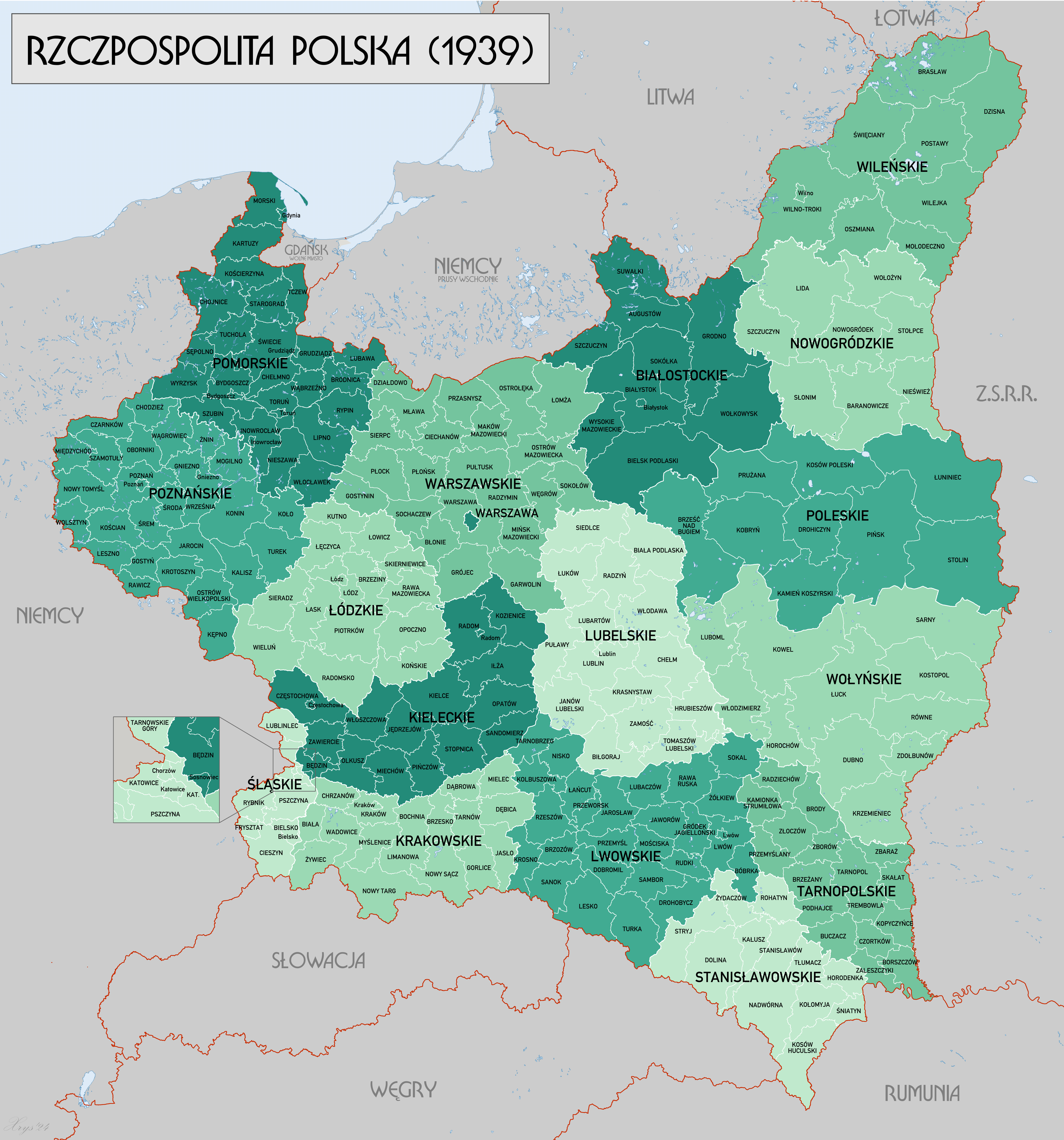 Polish language administrative map of the Polish Republic in 1939 showing Voidvodships and Powiats, Source data: Mapa Administracyjna Rzeczypospolitej Polskiej (300k)